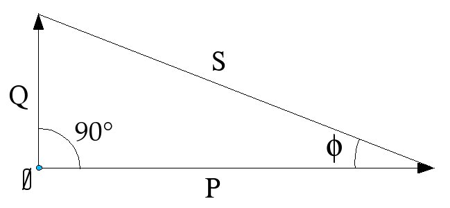 graph showing the relation between active, reactive and apparent power and phase angle (φ). P active power (W) Q reactive power (VAR) S apparent power (VA) Created with